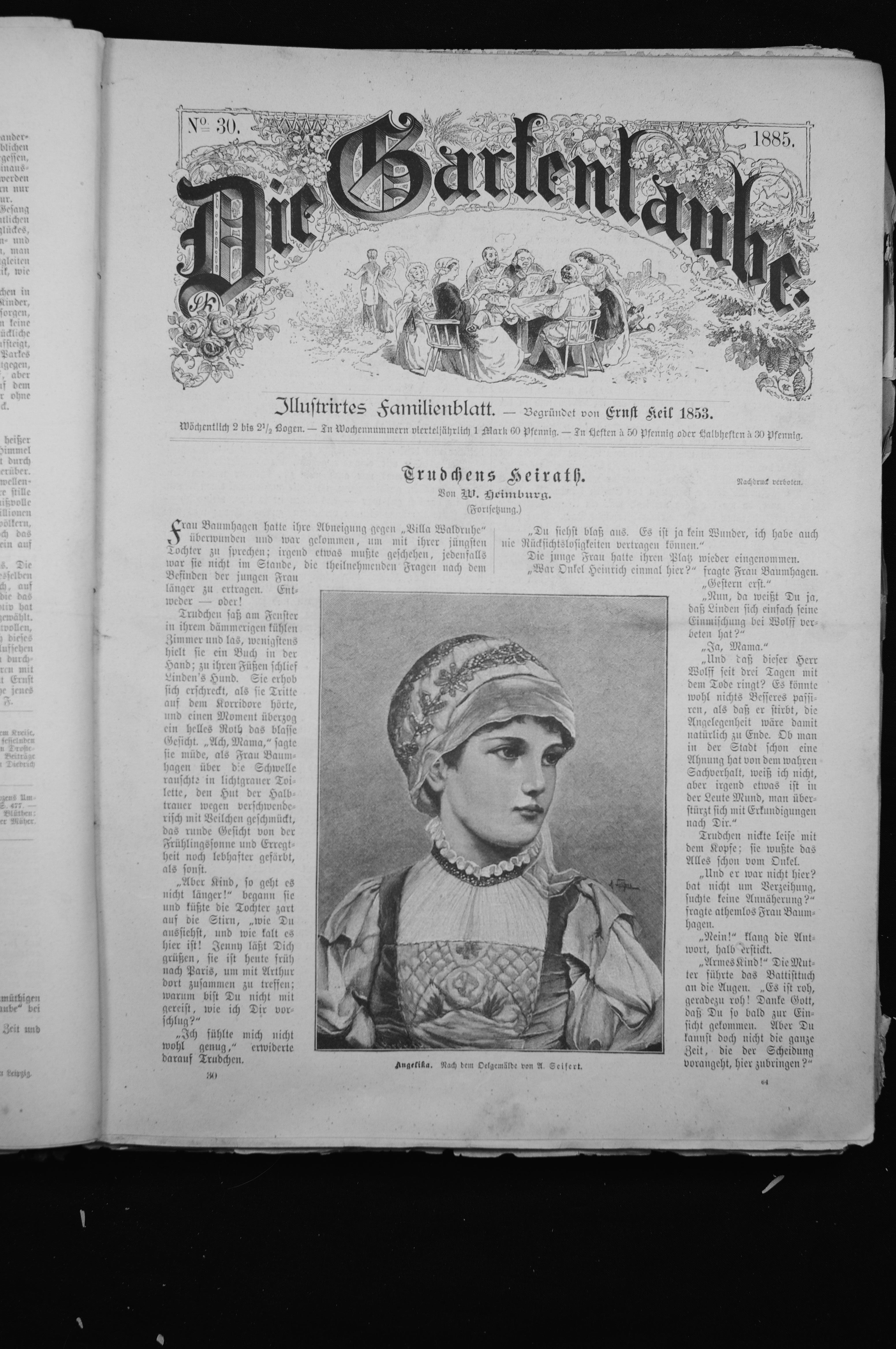 Page 485 from journal Die Gartenlaube for 1885. Extracted image (if any): File:Die Gartenlaube (1885) b 485.jpg - hi res, ~2.5 MB.